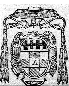 Coat of arms of Giovanni Battista Pallavicino